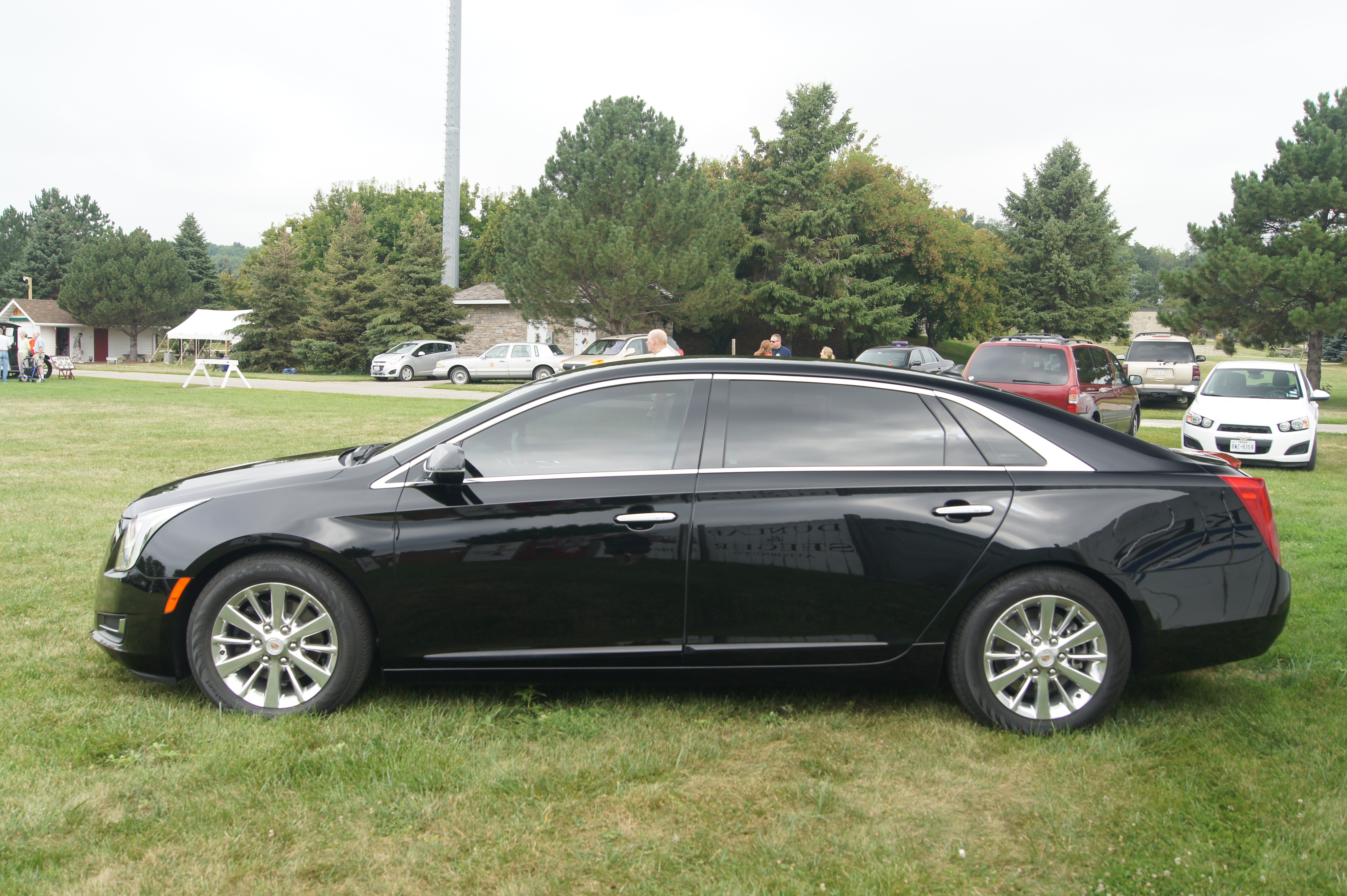 Professional Car Society International Meet 2014 Respond to Rochester Host: Northland Chapter (Celebrating Northland's 25th Anniversary) PCS Concours D'Elagance Show & Shine August 16, 2014 Olmstead County History Center Rochester, Minnesota You can see more car pictures by clicking on the link below